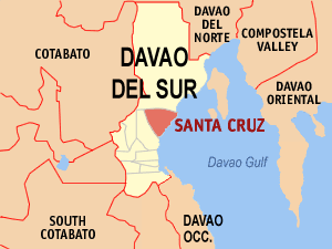 Map of the Davao del Sur showing the location of Santa Cruz